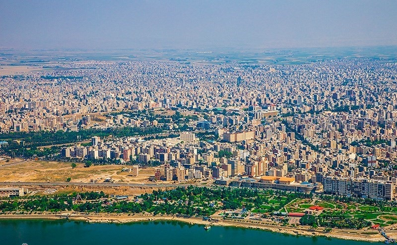 Ardabil